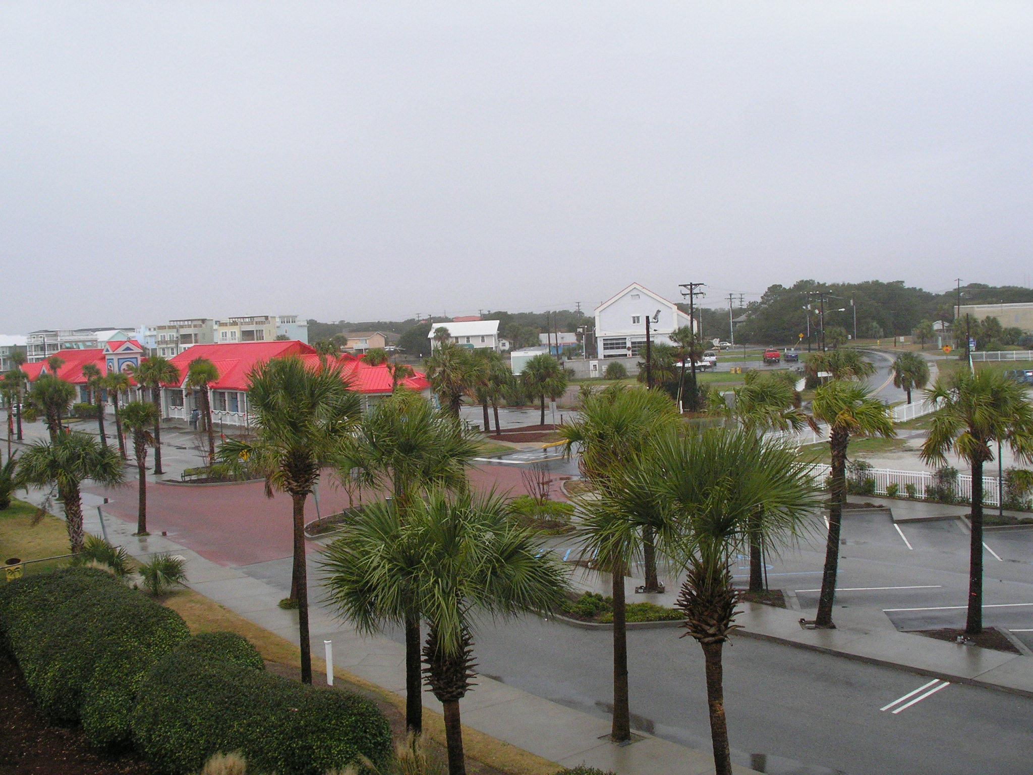 A view of Isle of Palms, South Carolina.